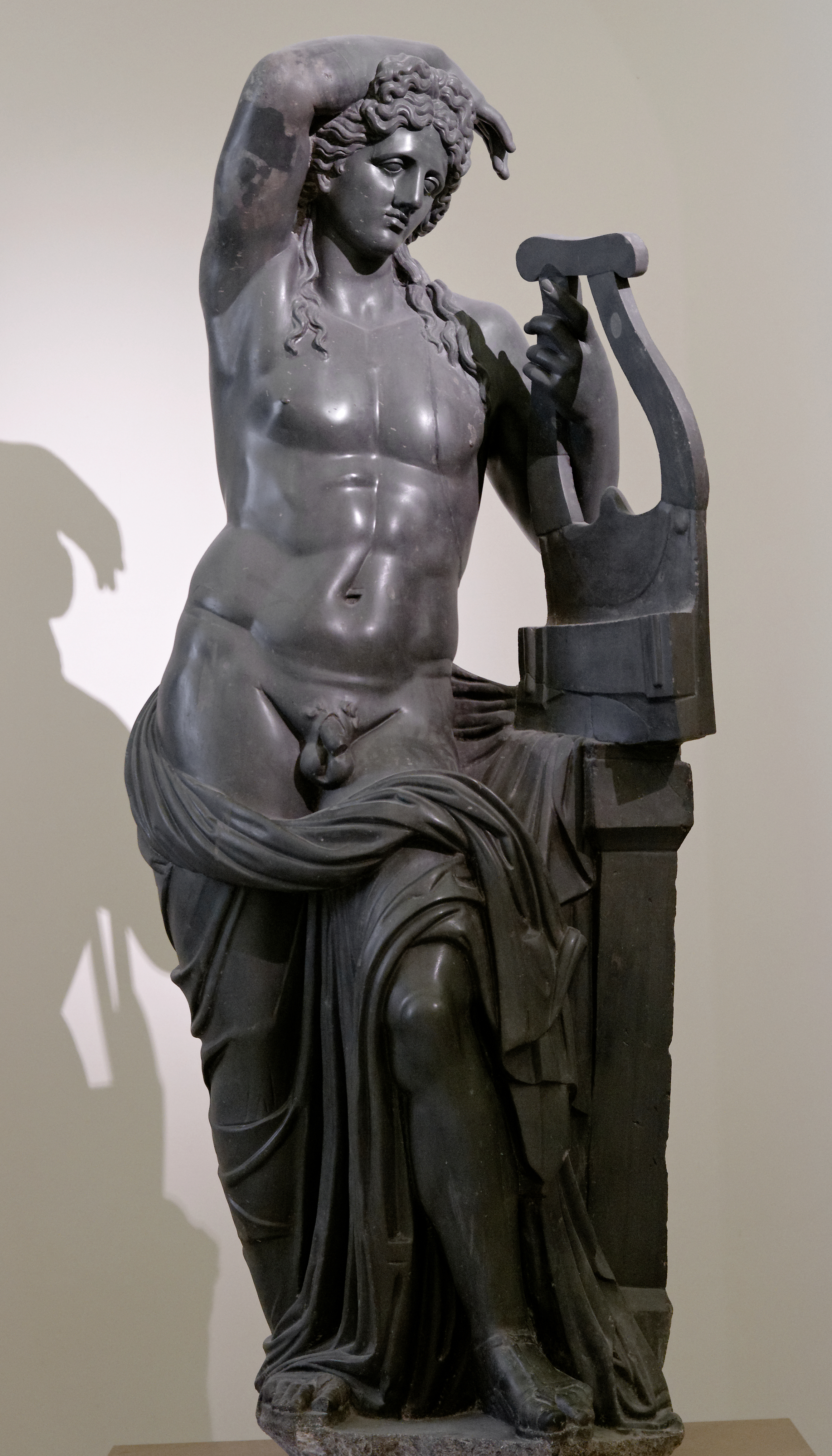 Statue of Apollo kitharoidos (lyre-bearer) of the type of the Apollo of Cyrene. Roman copy after a Greek original of the Late Hellenistic period.